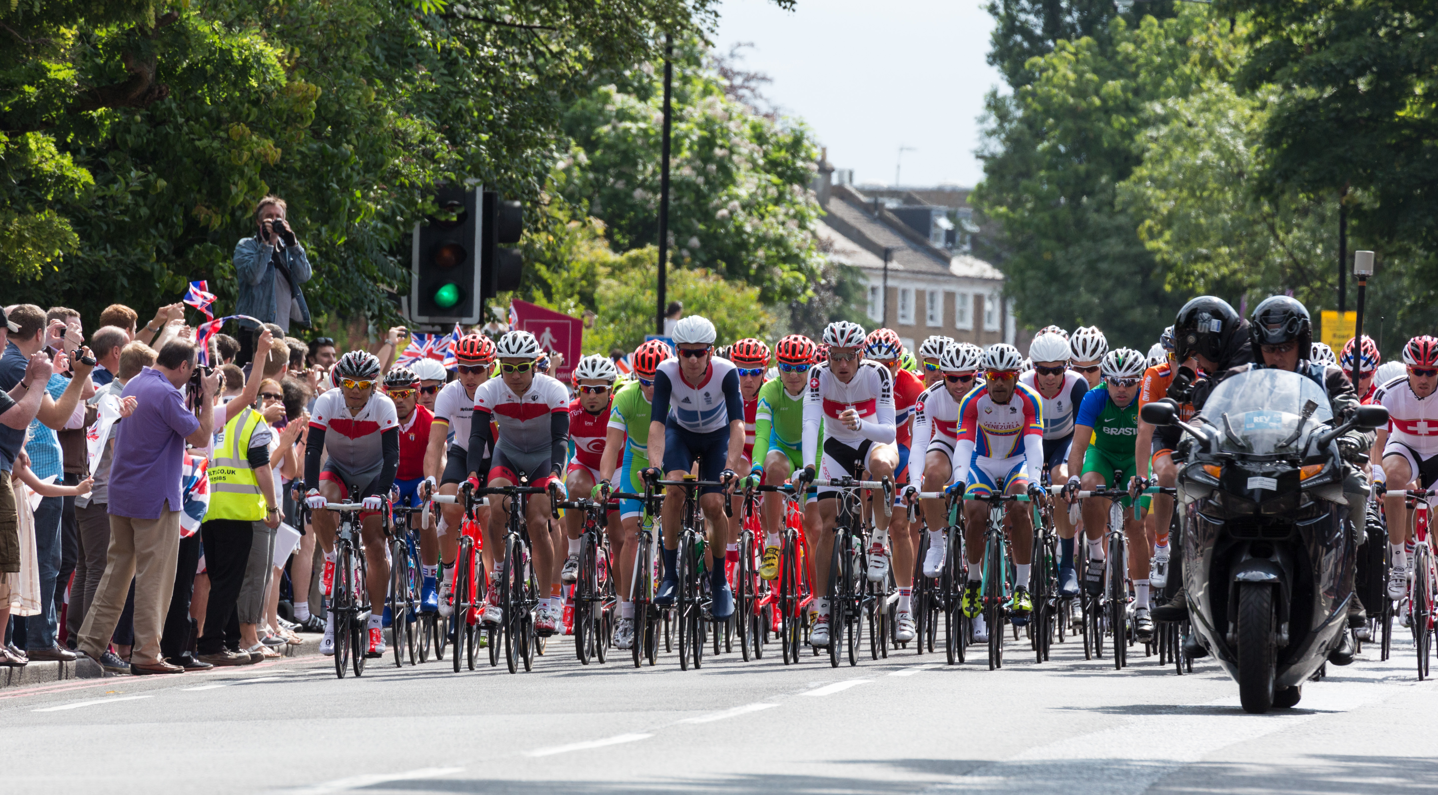 Men's Olympic Road Race Peloton, viewed from Upper Richmond Rd in Southwest London approximately 10km from the start of the race. Diliff (talk) 19:13, 29 July 2012 (UTC)